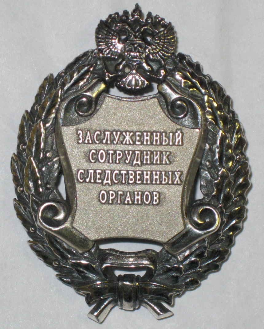 Honored employee investigative bodies of the Russian Federation. Badge